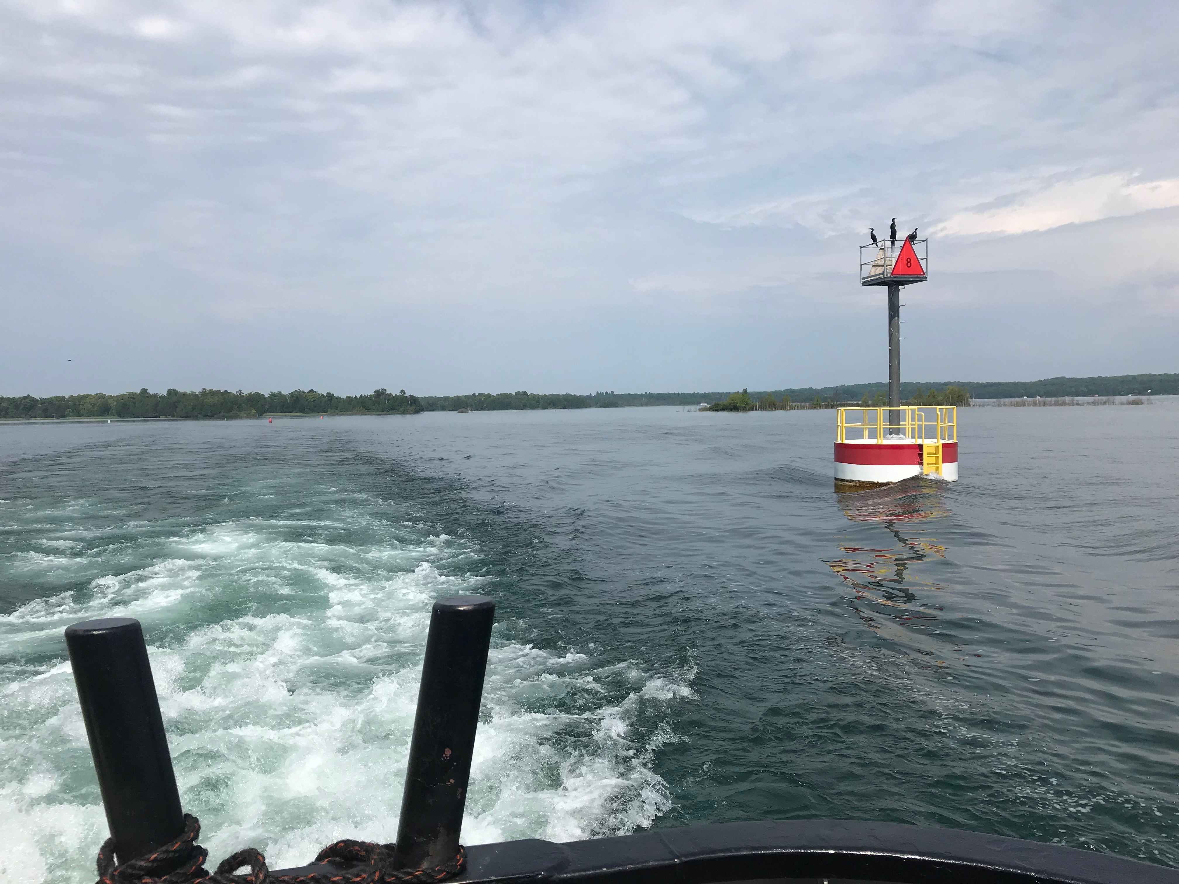 Western channel of Detroit Harbor from the car ferry.